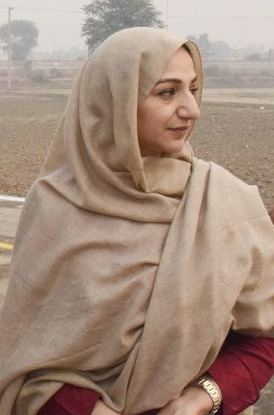 Prime Minister Nawaz Sharif is discussing further extension of Sangla hill interchange with his federal Minister Ch. Berjees Tahir